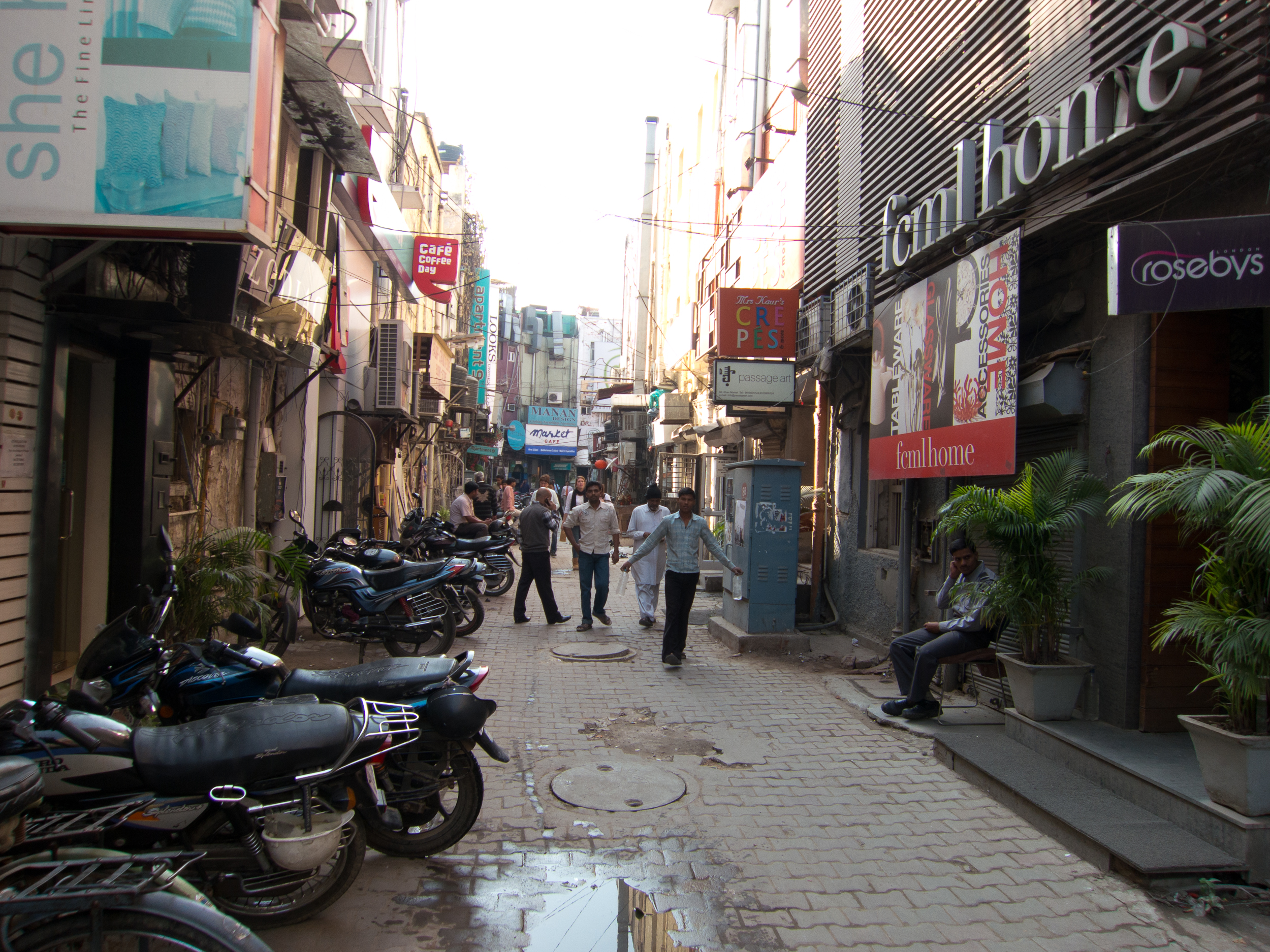 This is where many rich folk go to shop. Much nicer shops and surroundings than the other various markets, but still not a fancy mall. They do have really nice western style malls as well if you're into that.